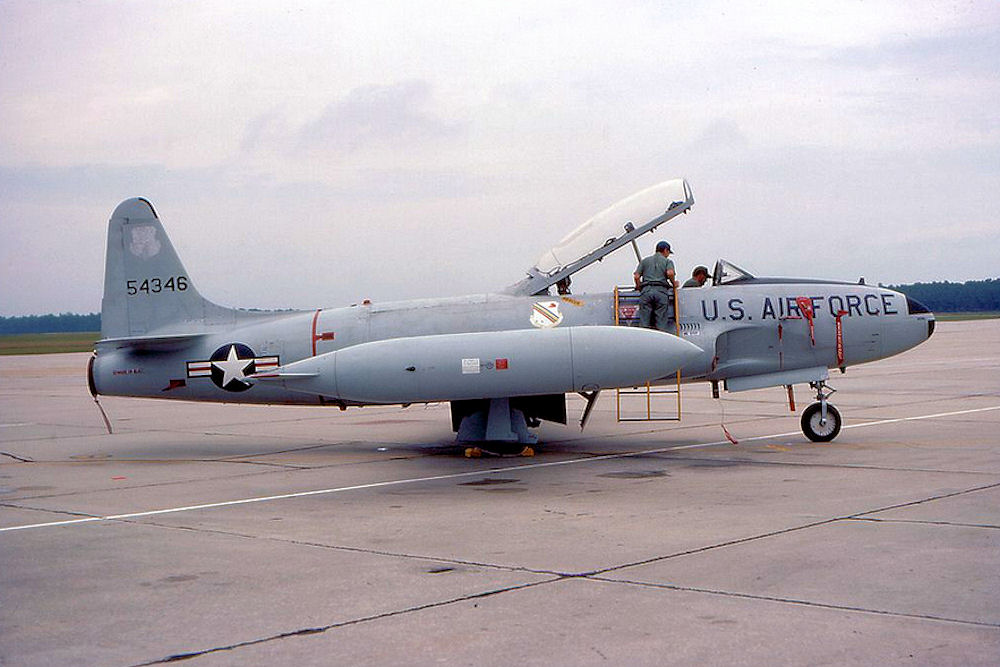 4554th Tactial Fighter Training Squadron T-33A 55-4346 to AMARC 18 May 1977 then returned to service 1977 to AMARC 23 Nov 1987